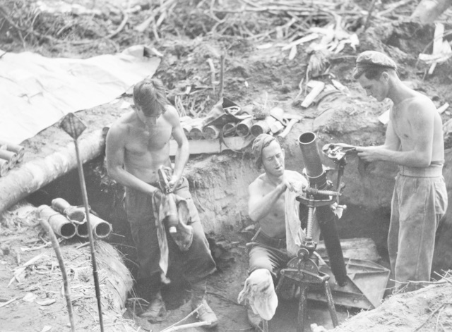 A mortar crew from the 15th Infantry Battalion (Oxley Regiment) on Bougainville, July 1945